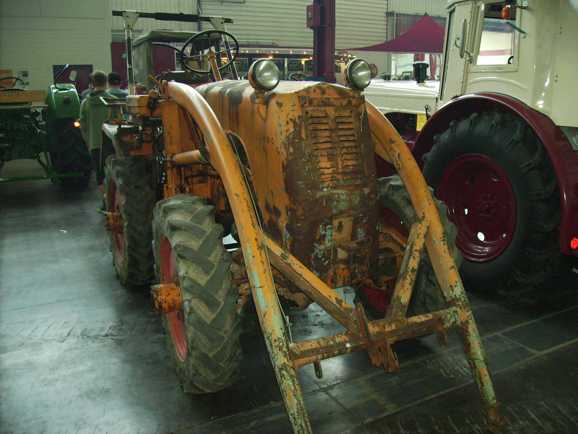 Nordtrak Stier 30 Jumbo